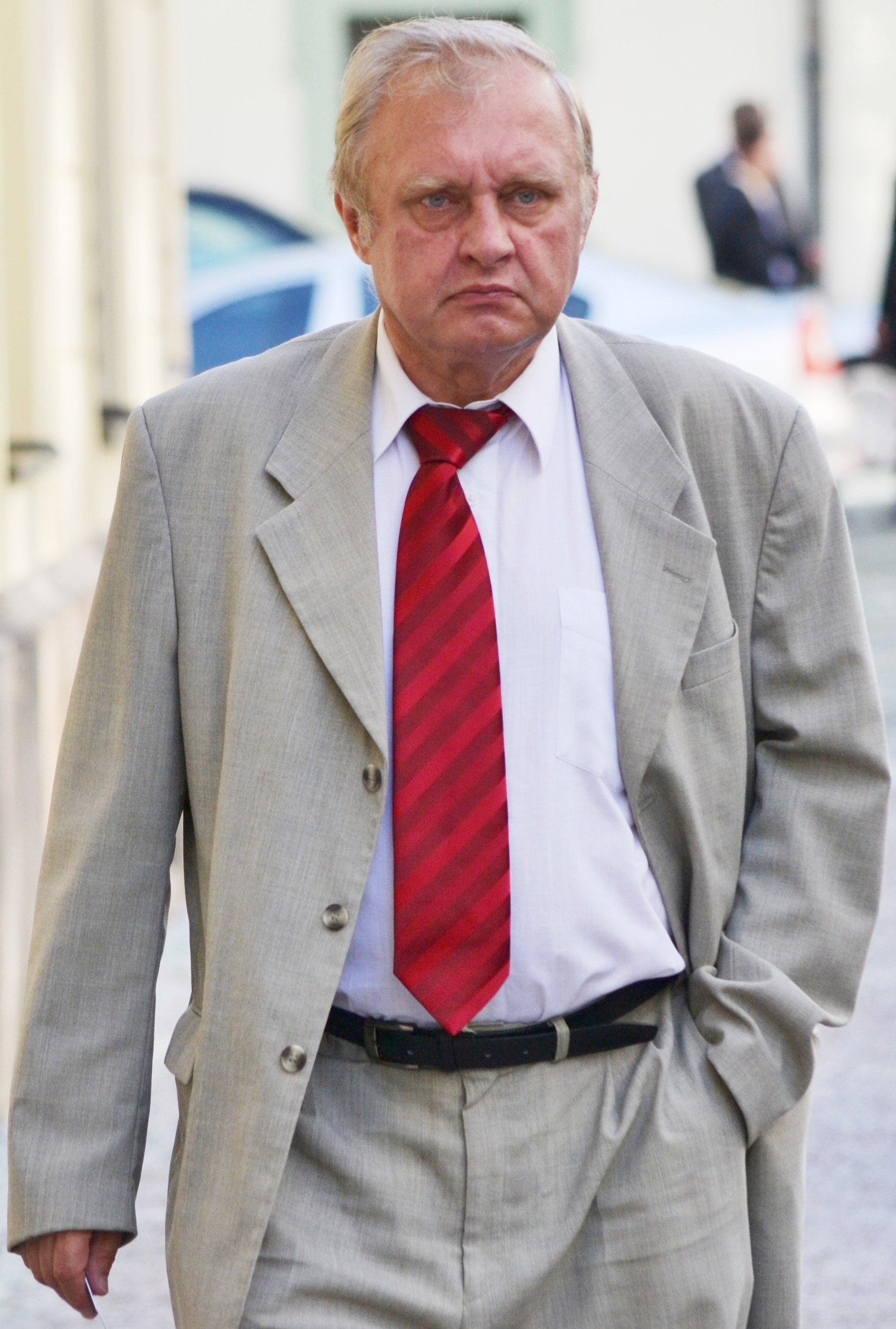 Miloslav Ransdorf, Member of the EU Parliament